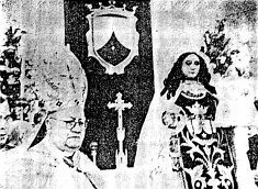 An old photo made before 1954 from an unknown author